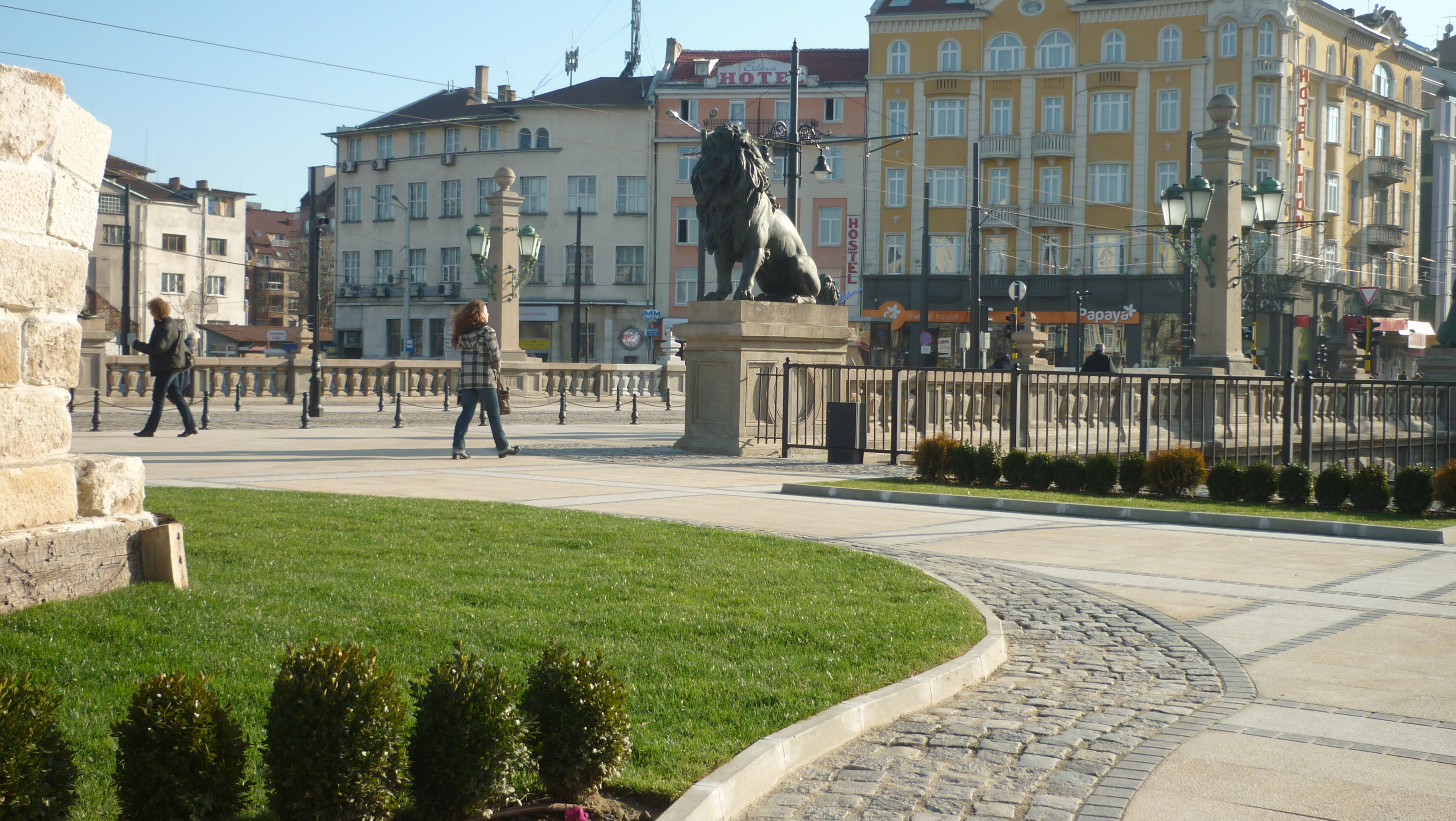 View of Lavov most, Sofia